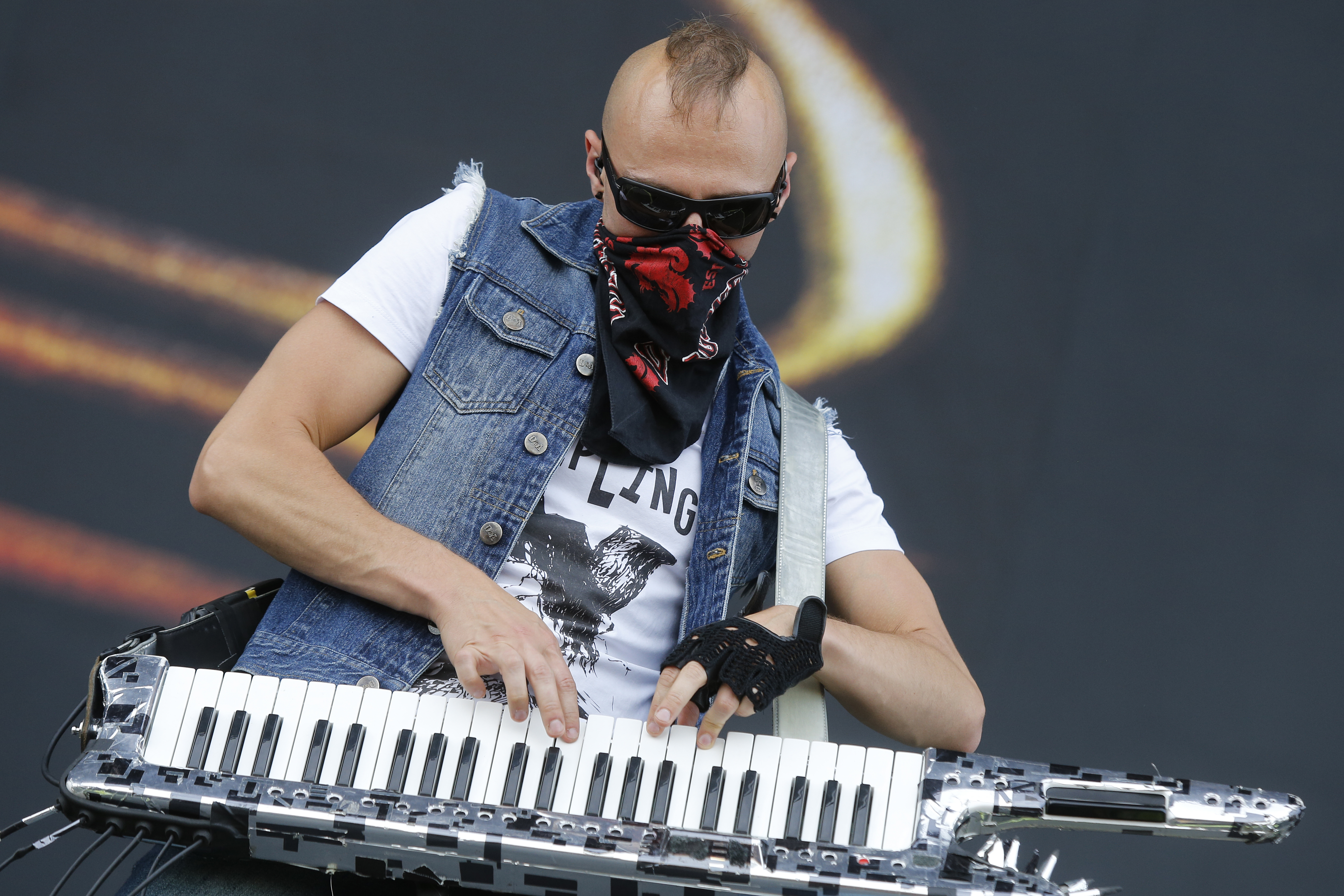 Vadim Pruzhanov, keyboarder of DragonForce at Nova Rock-Festival 2013.